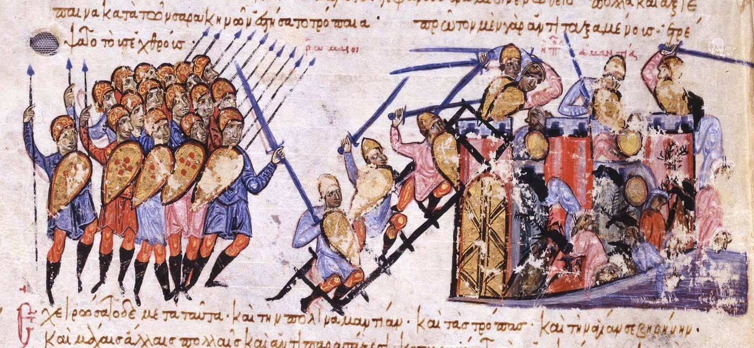 The Byzantines under Nikephoros Phokas the Elder capture the town of Amantia in S. Italy from the Saracens